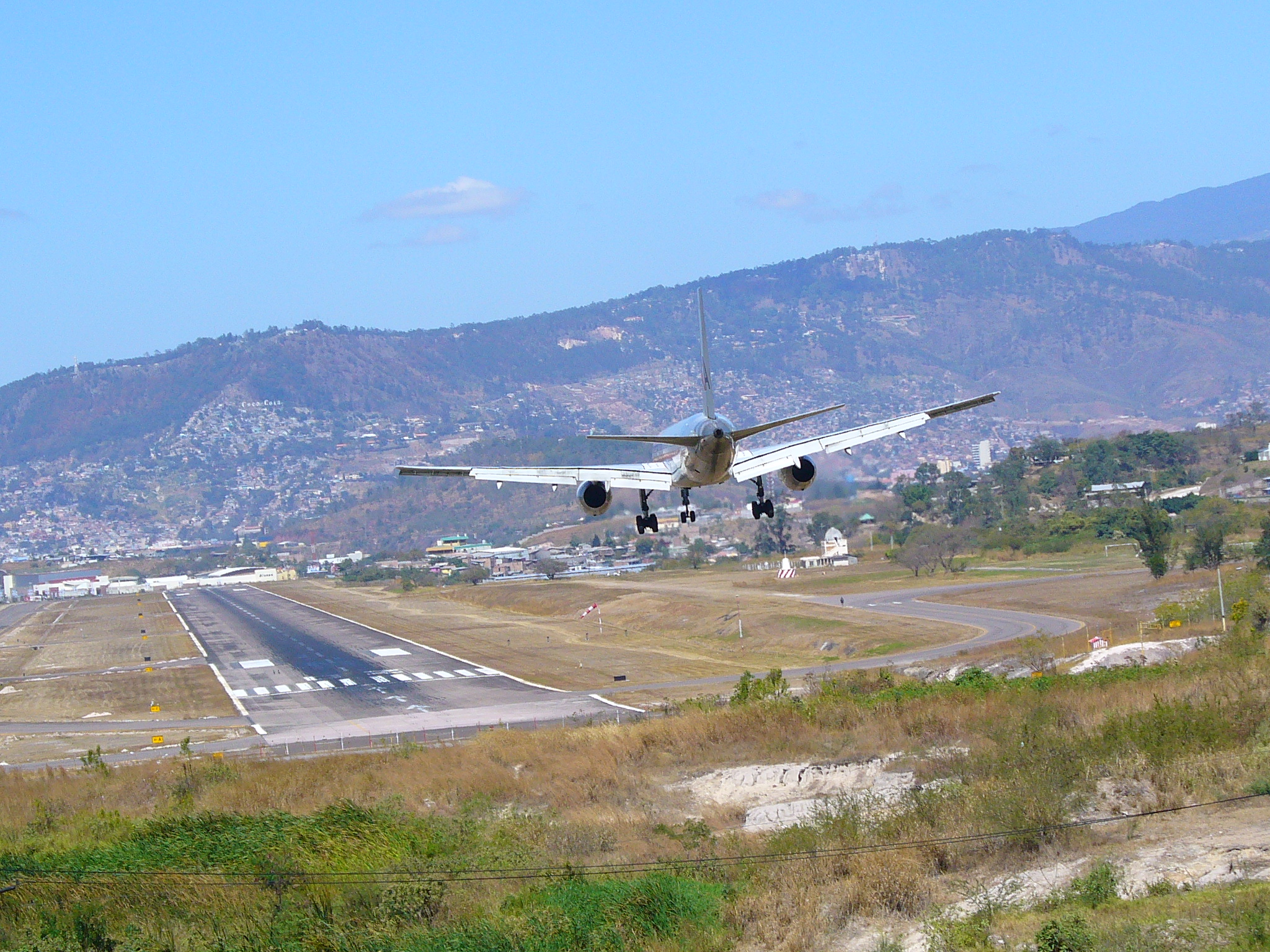 An AA 757-200 Landing runway 02 at Toncontin International Airport (Prior to removal of the hillock), Honduras